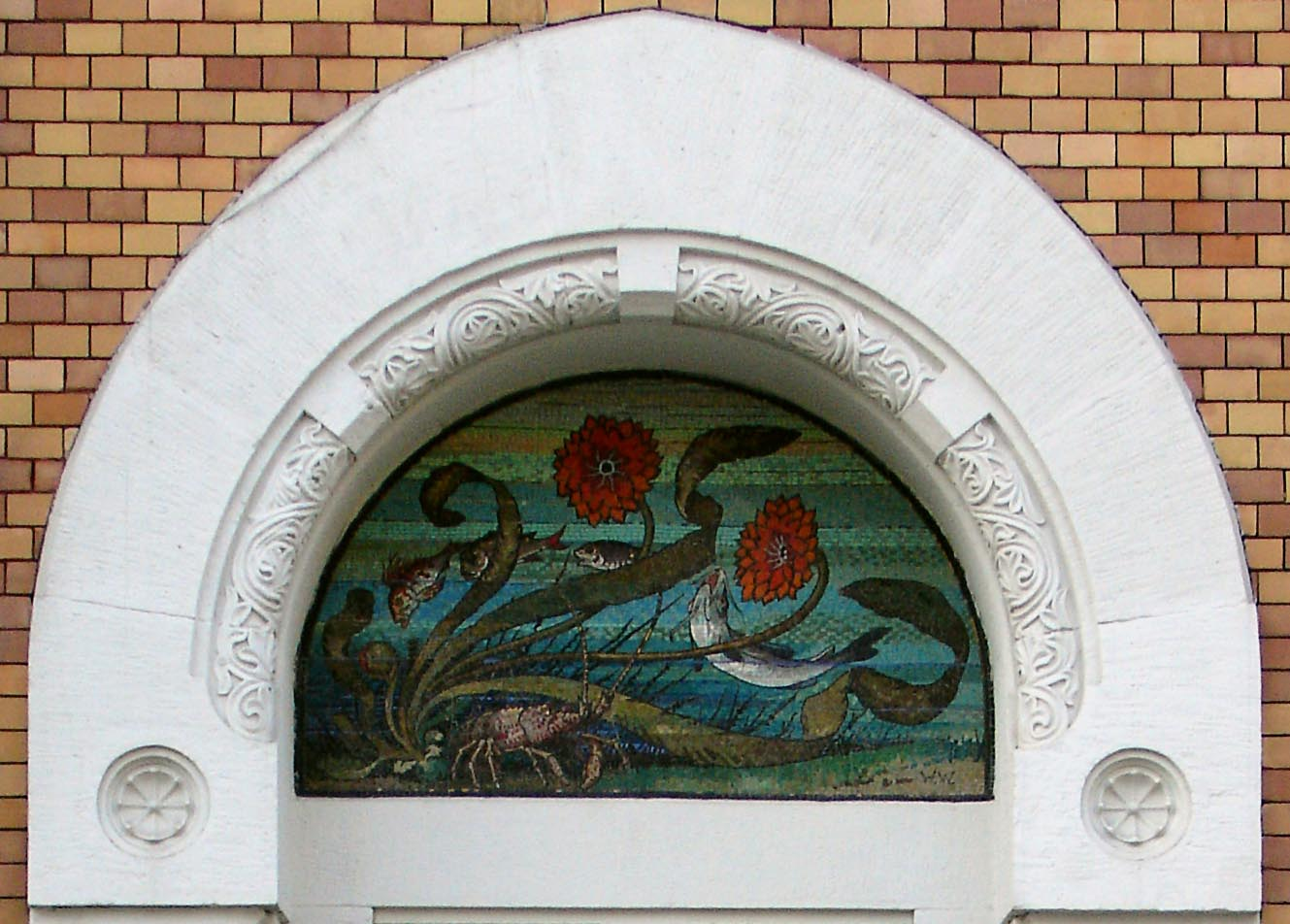 8 Glazovsky Lane, architect: Lev Kekushev. Prechistenka Street, Moscow. Mosaic by William Walcot